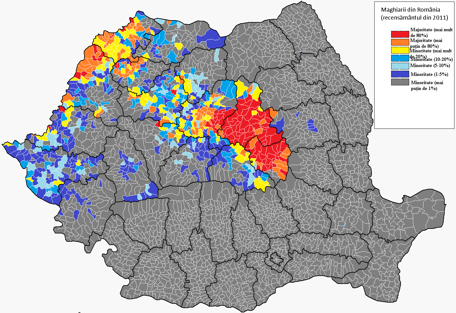 Hungarians in Romania, based on the 2011 census.